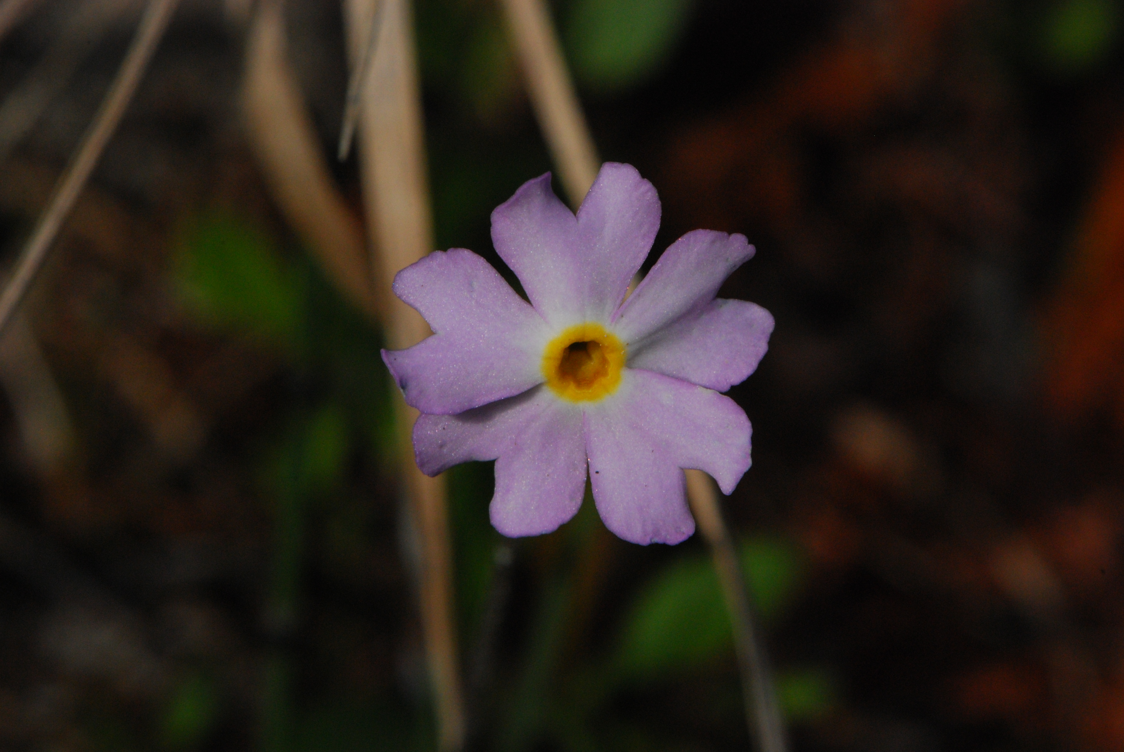 Primula mistassinica, Mistassini primrose, in the Ridges Sanctuary Wisconsin State Natural Area #17, Door County